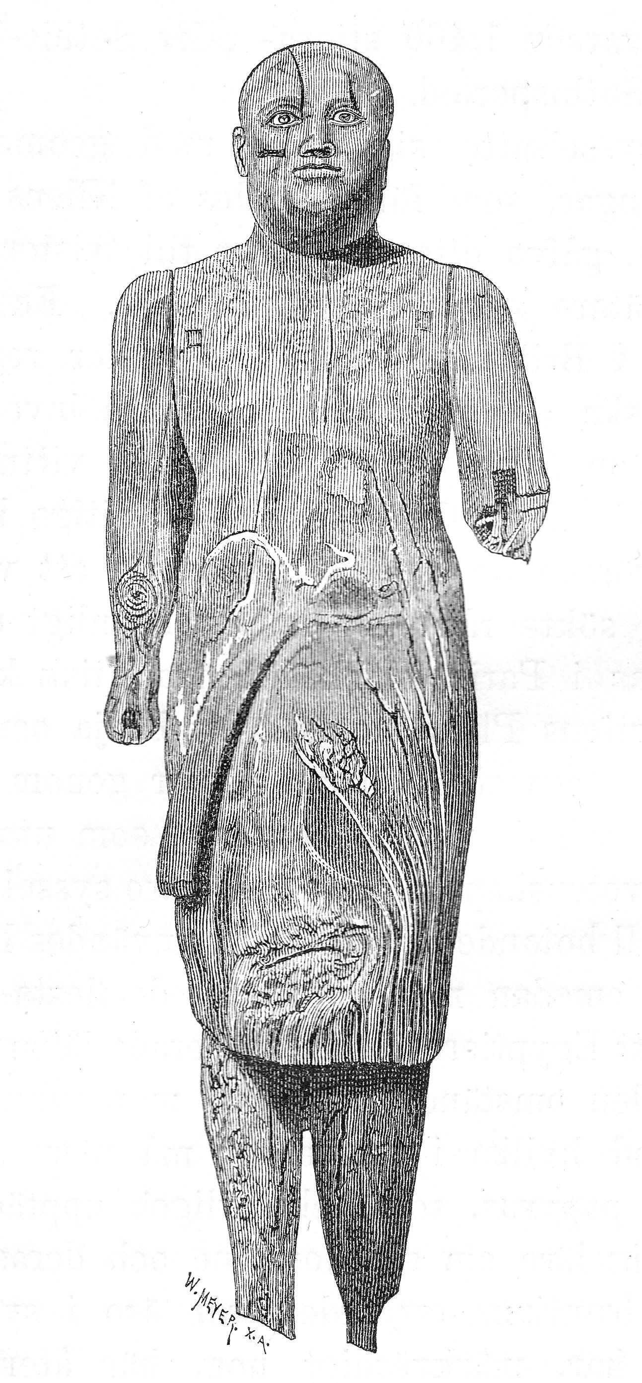 Illustration from "Illustrerad verldshistoria utgifven av E. Wallis. volume I": Wooden statue from the fourth dynasty. (around 3,000 BC.)